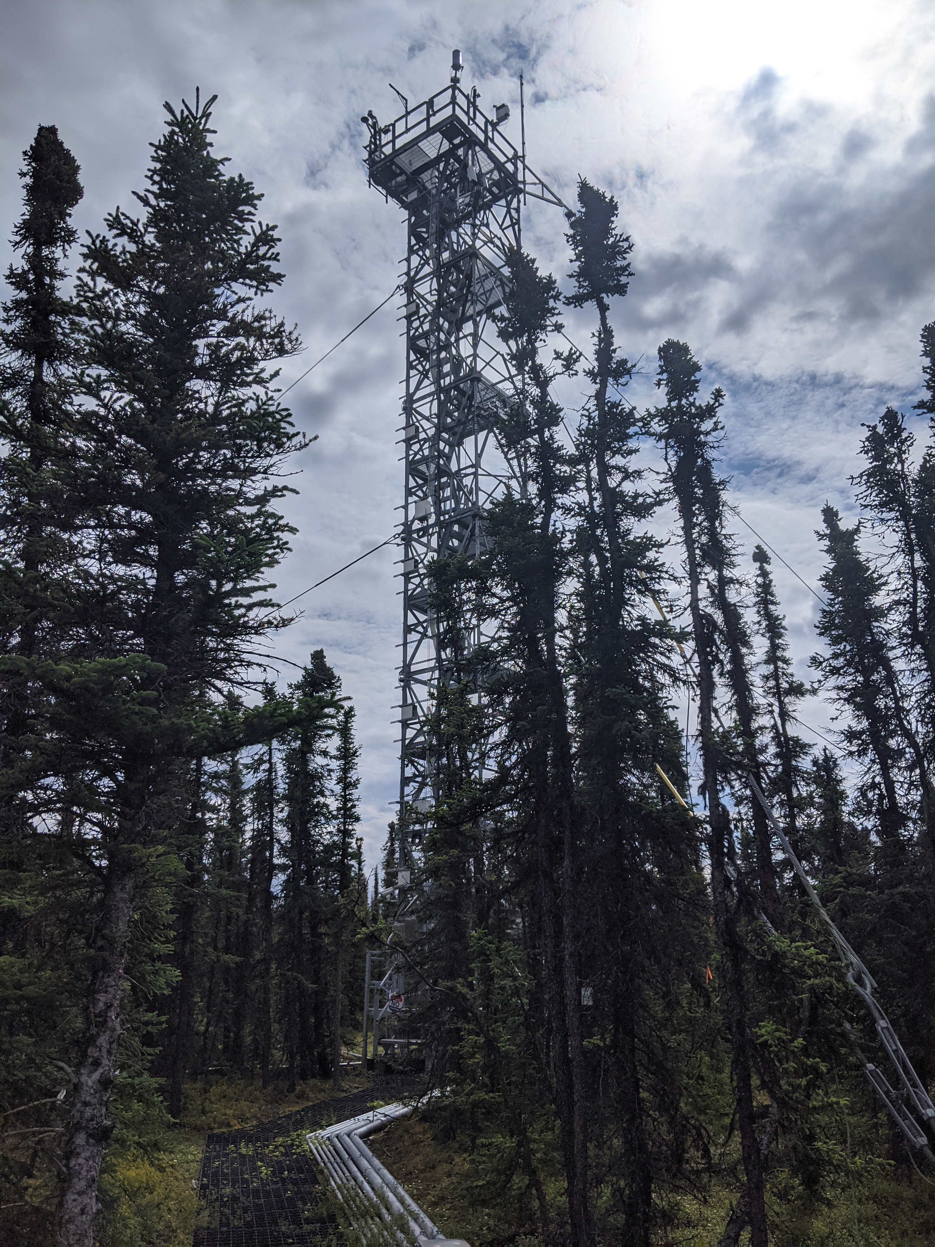 National Ecological Observatory Network tower located in Delta Junction, Alaska